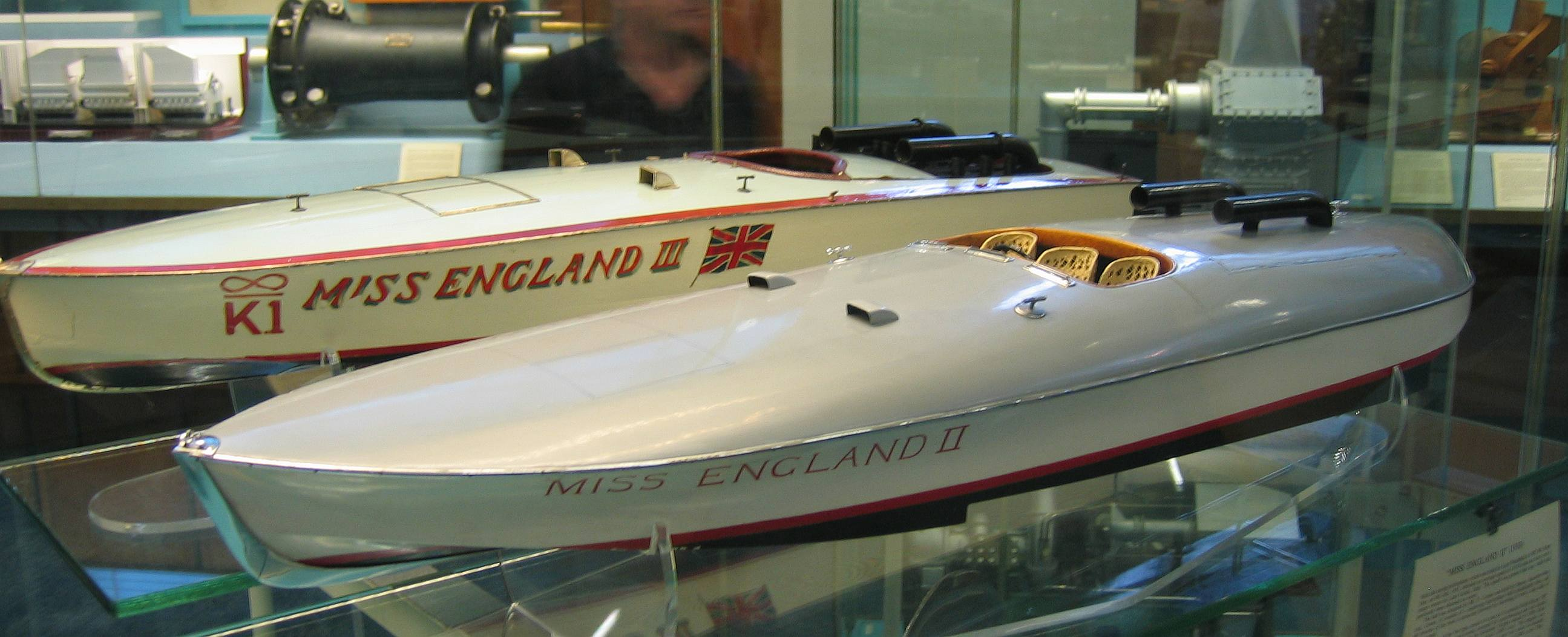 Models of Miss England II and Miss England III (behind) at the Science Museum, London